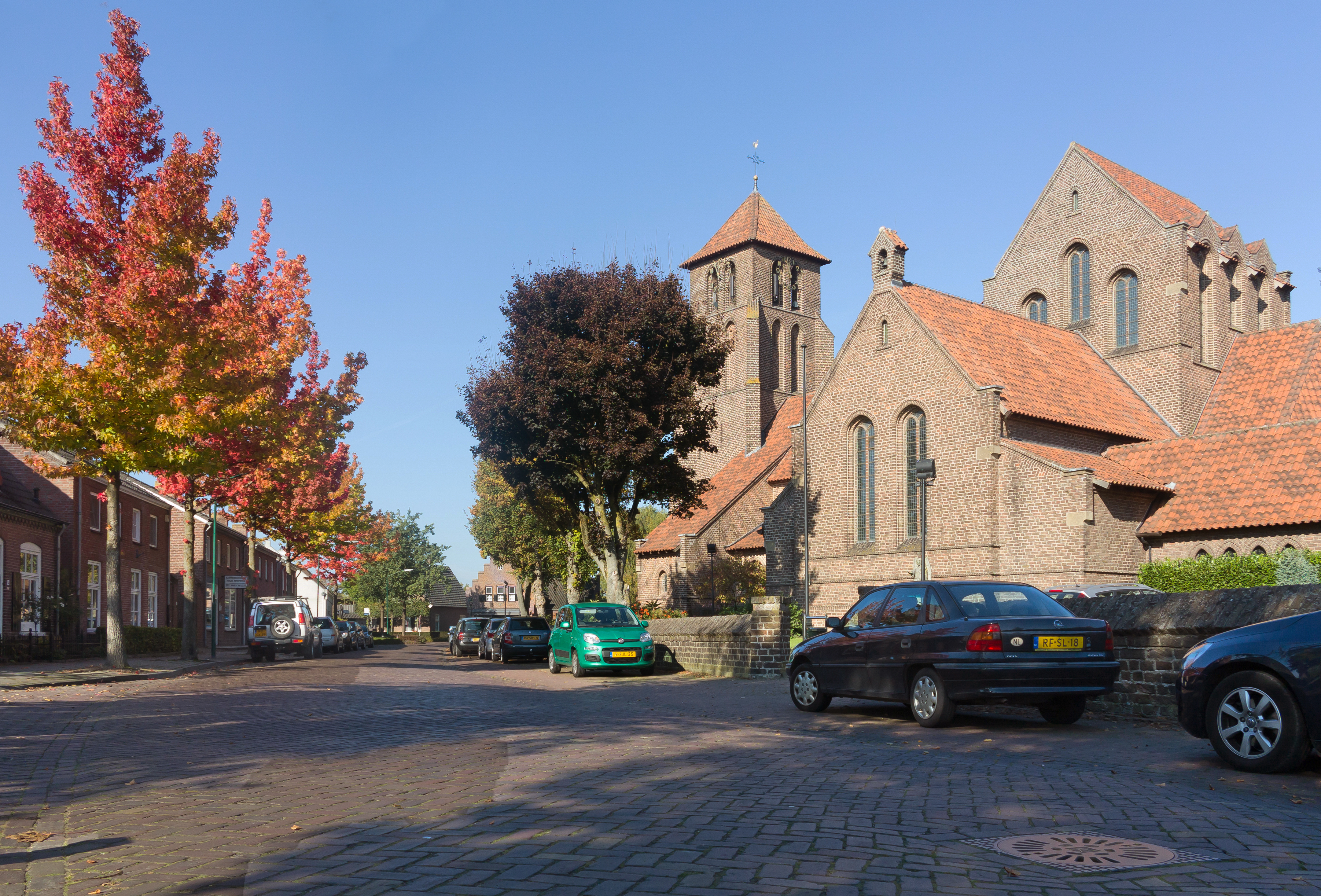 Beek en Donk, church (de Sint Michaëlkerk) in the street